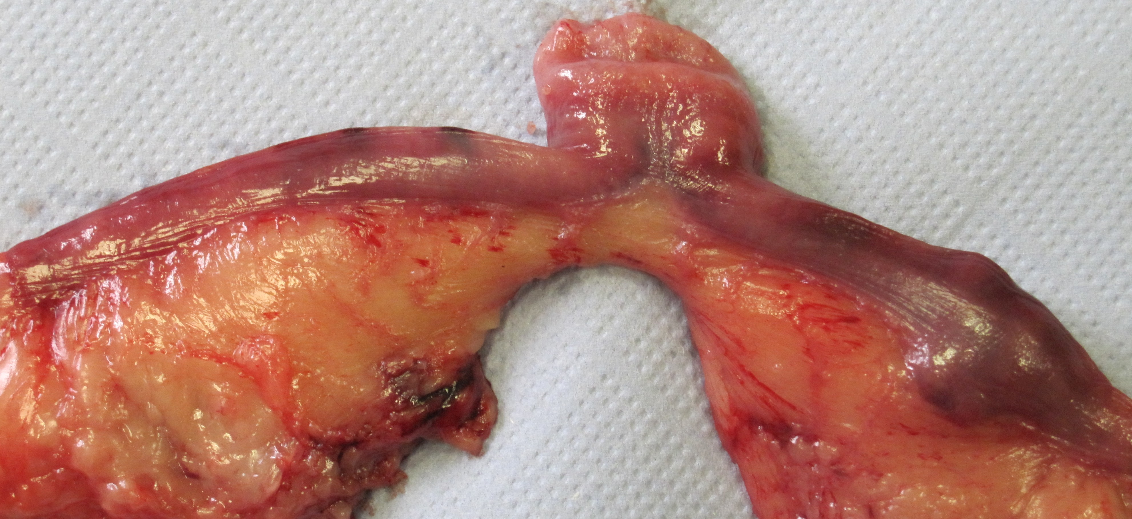 hemometra due to an adenocarcinoma in the uterus of a rabbit